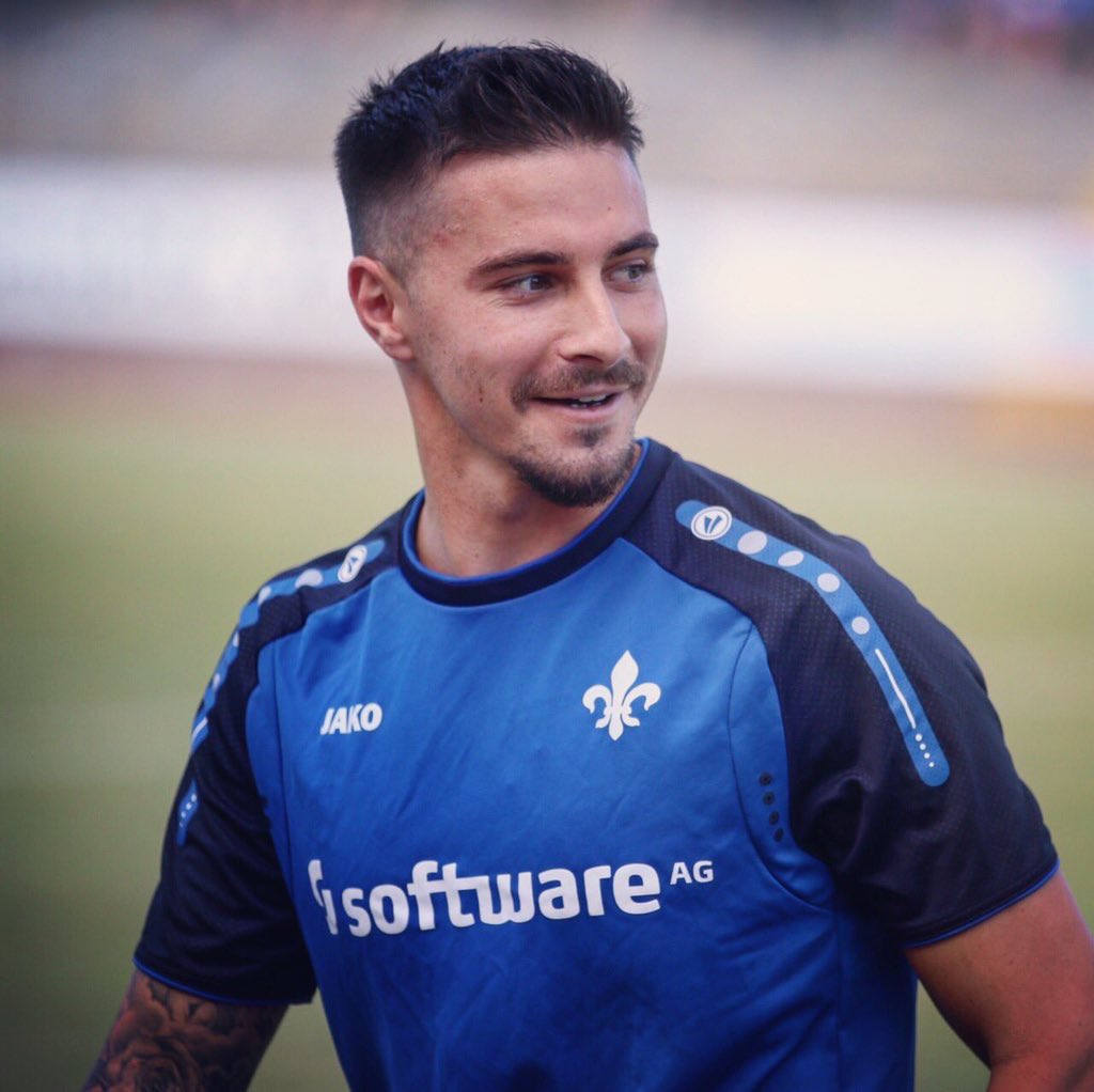 Jamie Maclaren in training with SV Darmstadt 98, July 2017.